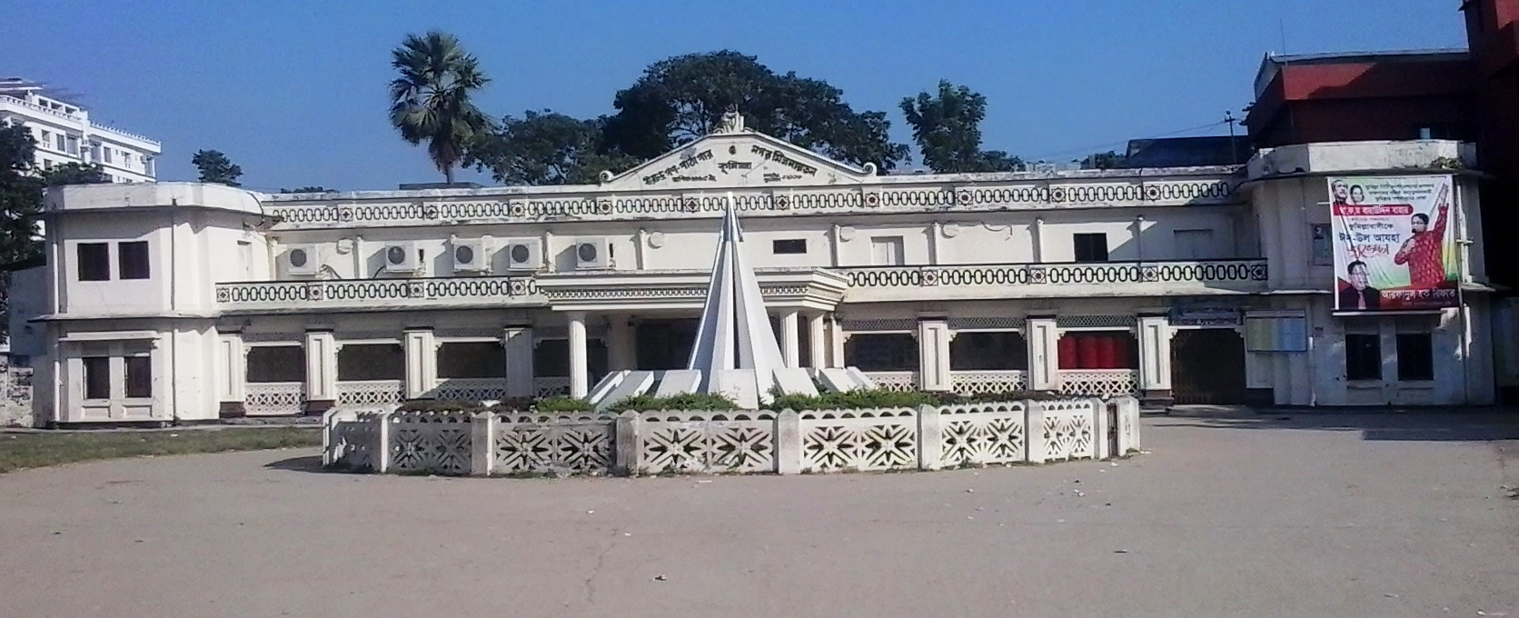 Birchandra pathagar and Town hall, comilla